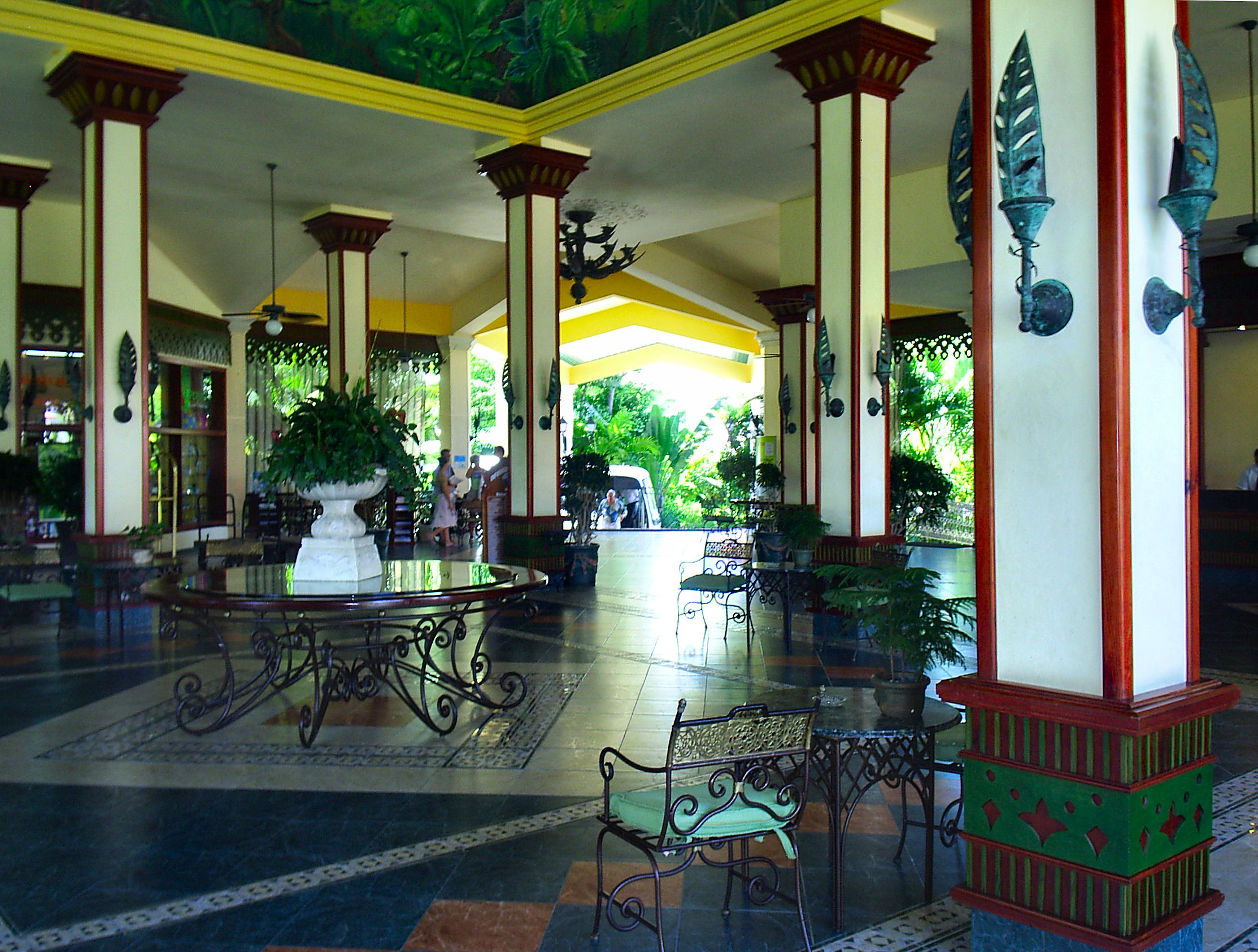 Taken in the Dominican Republic..